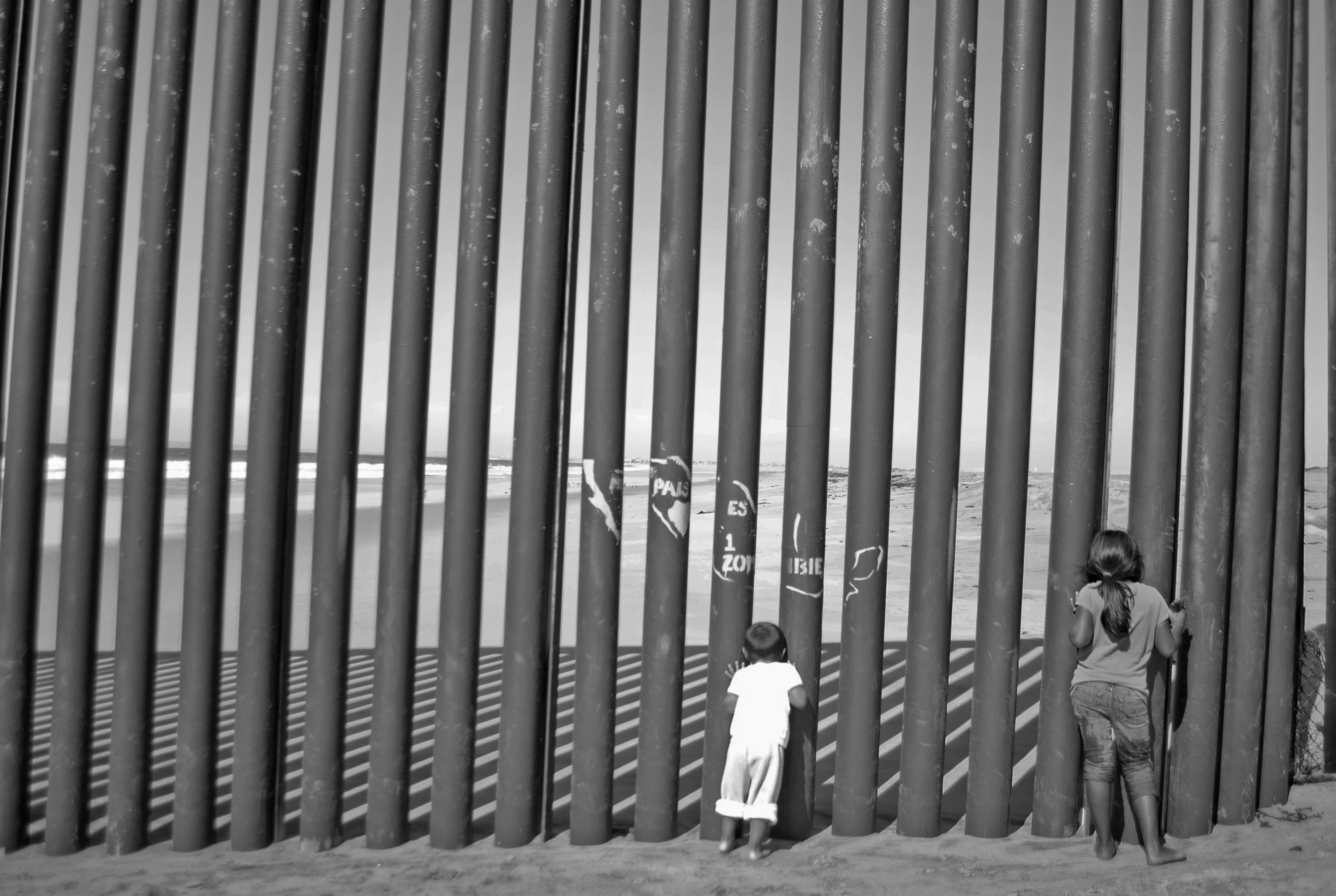 Tijuana view of the US-Mexico barrier steel border division fence, with children peering into California. Photo taken near the beach on the Méxican side, in the San Diego-Tijuana border zone.